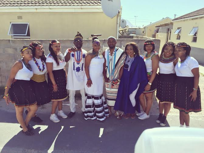 The bride and groom in their Xhosa traditional attire This is an image of Cultural Fashion or Adornment from South Africa